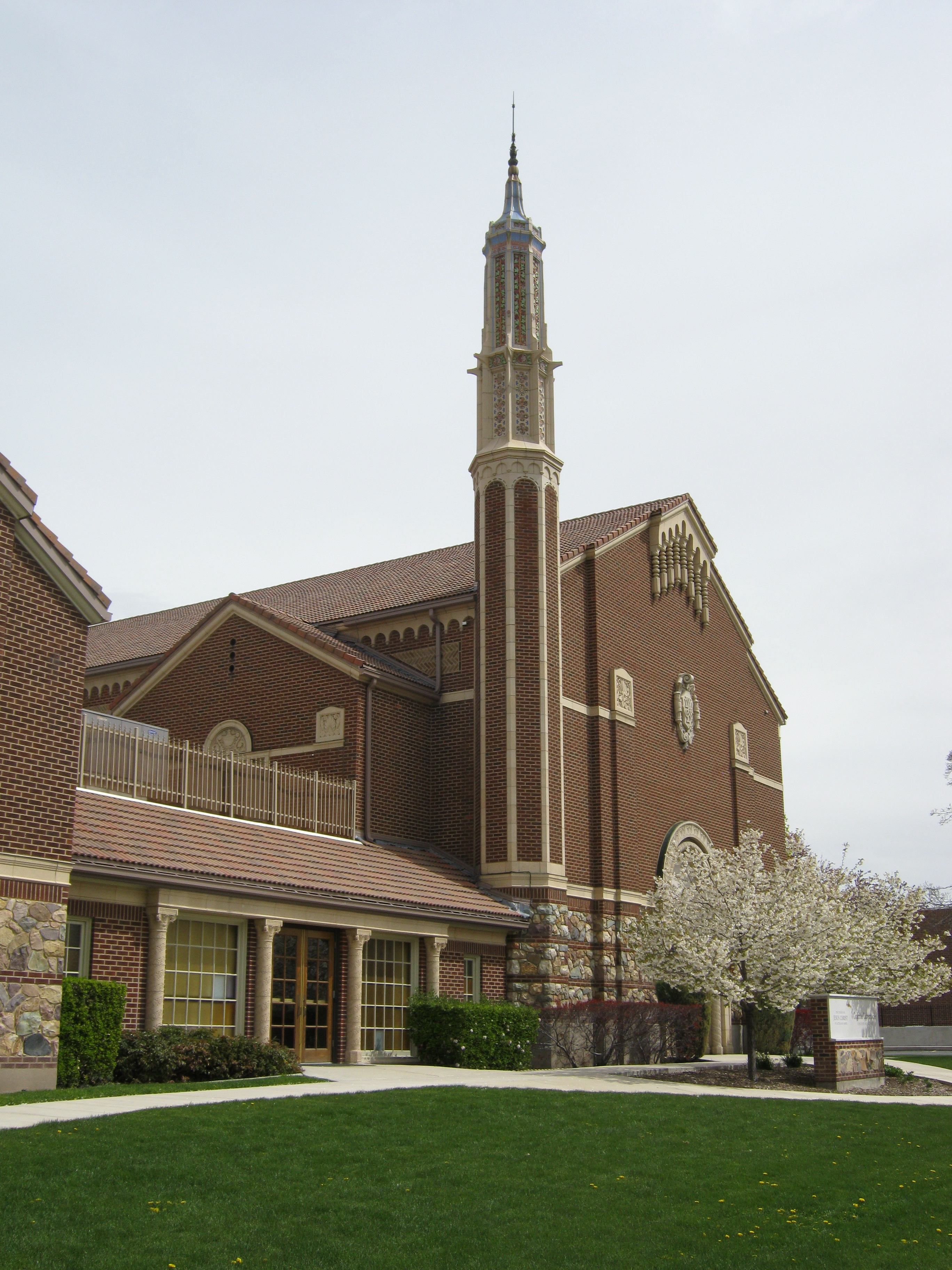 The Granite Stake Tabernacle (also called the Granite Tabernacle) of The Church of Jesus Christ of Latter-day Saints was built in 1929-1930 and is located at 2015 S 900 E, Salt Lake City, Utah, United States. This succeeded the original Granite Stake Tabernacle which was built in 1903, but turned into the Grant Stake Tabernacle. This picture depicts the front of the building on the west side.